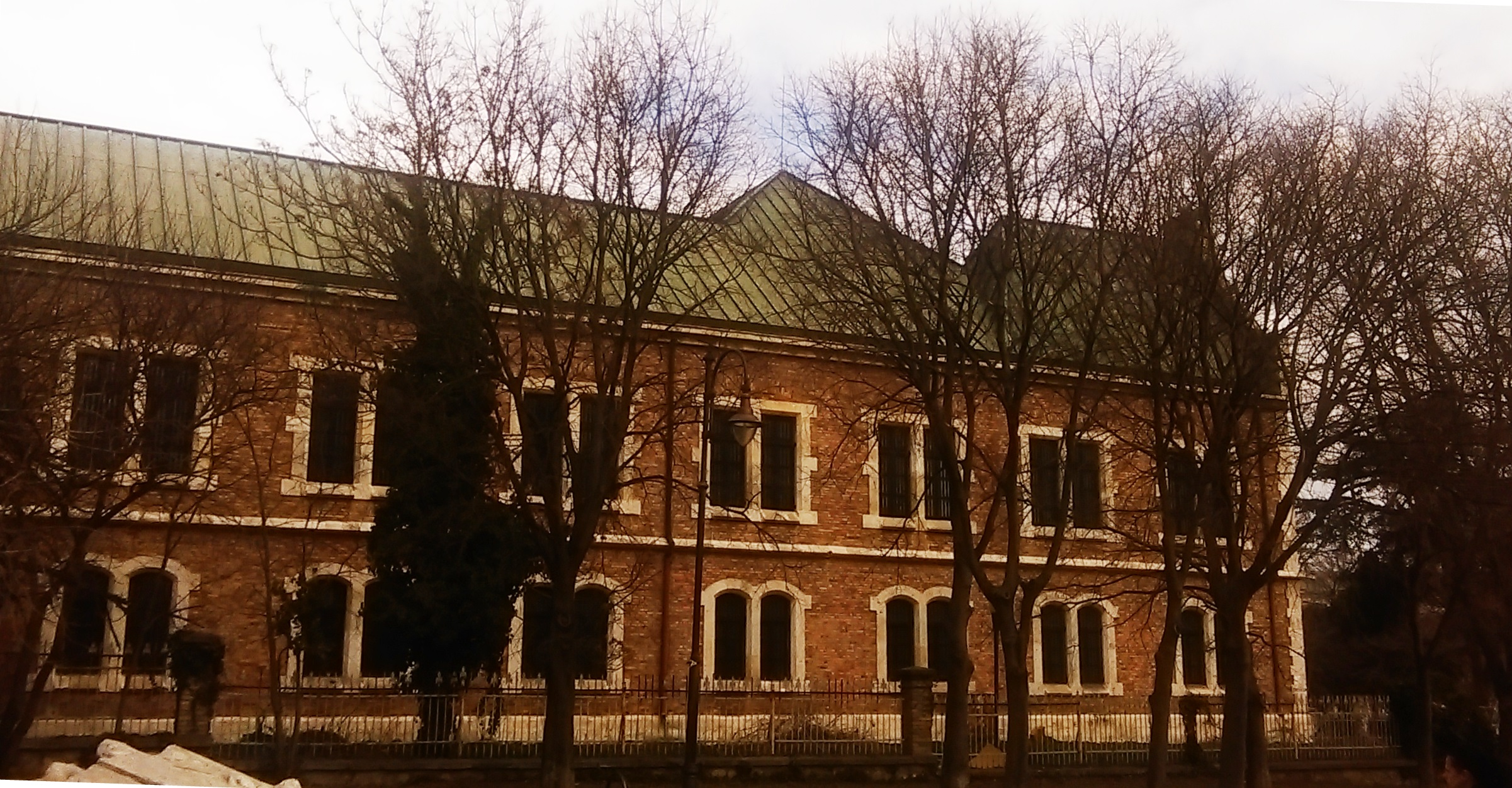 Varna city art gallery